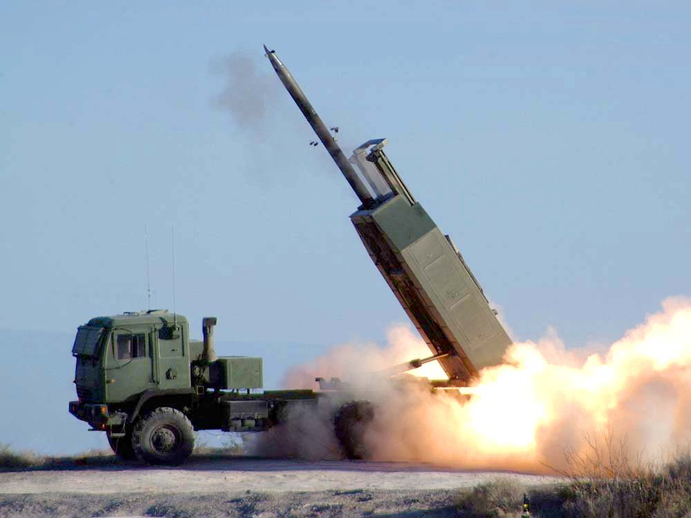 The High Mobility Artillery Rocket System fires the Army's new guided Multiple Launch Rocket System during testing at White Sands Missile Range.